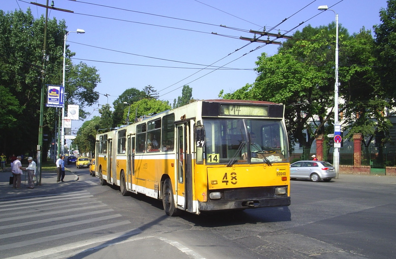 Timişoara trolleybus 48, a 1993 Rocar DAC 217EA, travels east on Bulevardul Republicii at Piaţa R. Maria, on route 14. It was retired/withdrawn around 2007.